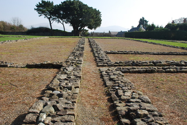 Segontium. A view Southeast between the remains of the barrack blocks. See 1212189